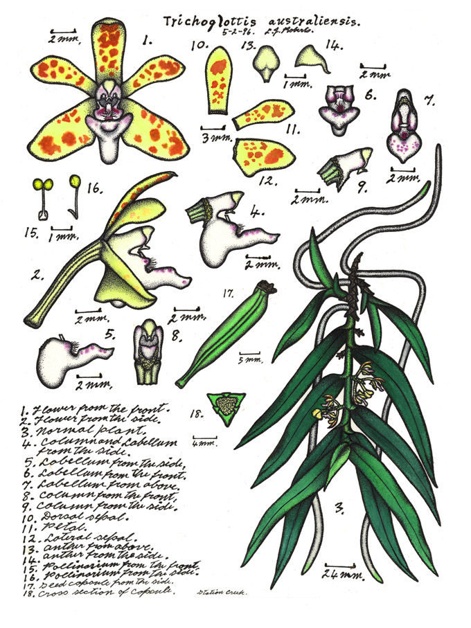 This image is one of a series by Lewis Roberts